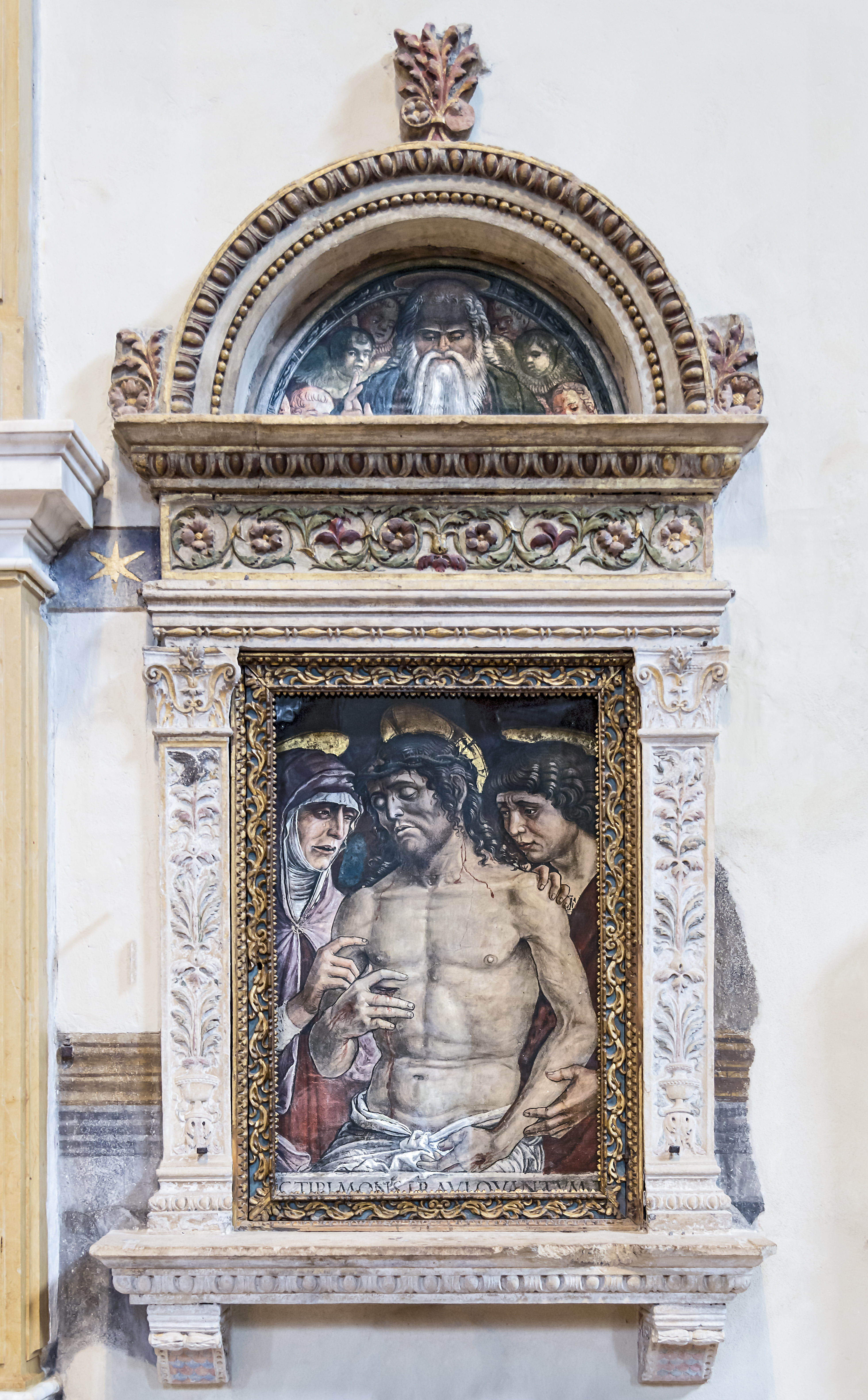 Church of Santa Maria dei Servi, Padua - Deposition by Jacopo Parisati da Montagnana.